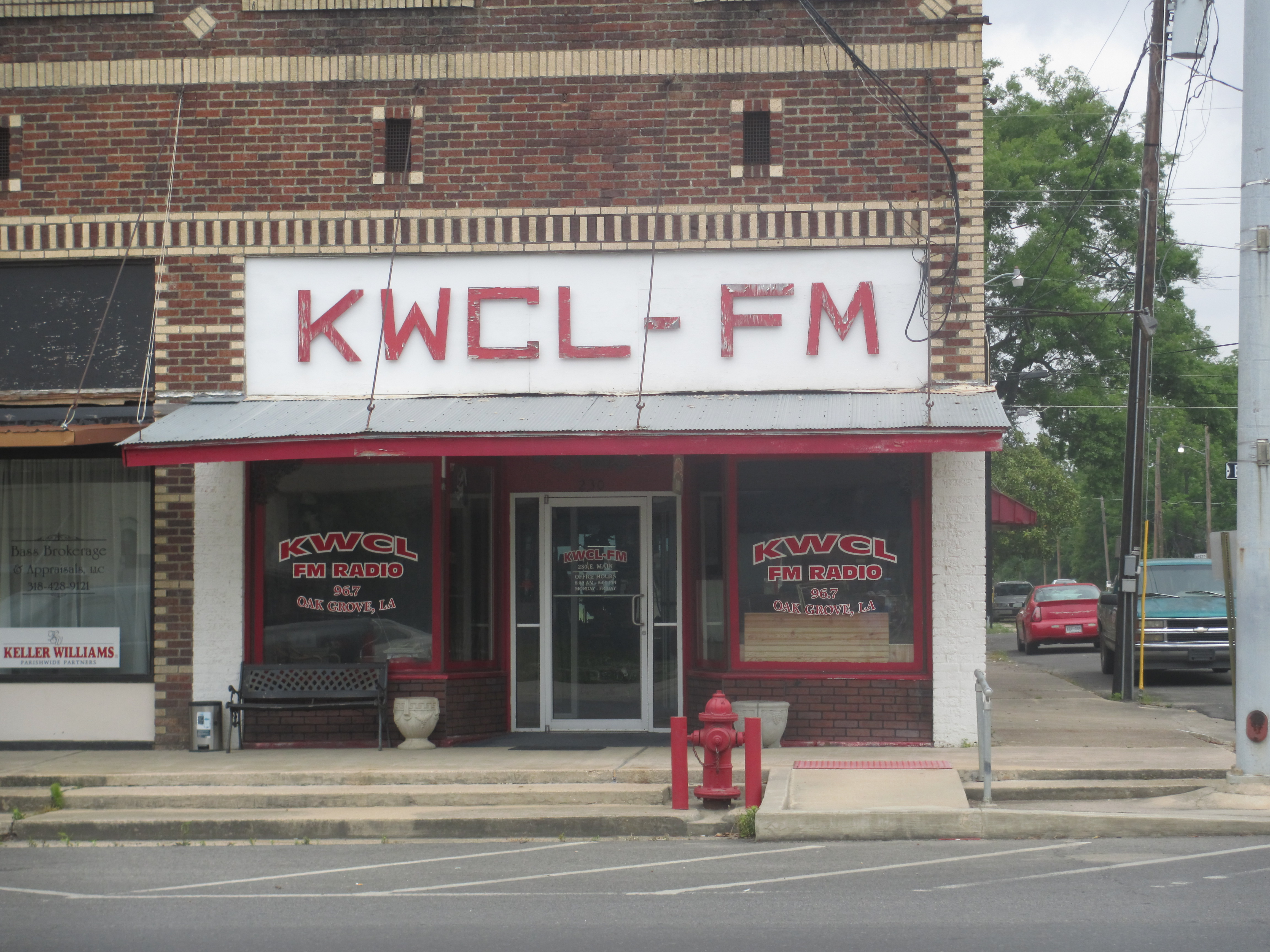 I took photo of oldies station KWCL-FM in Oak Grove, LA, with Canon camera.